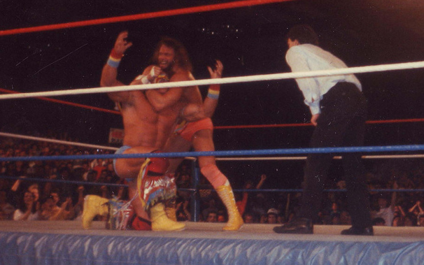 Randy Savage applying a headlock to The Ultimate Warrior